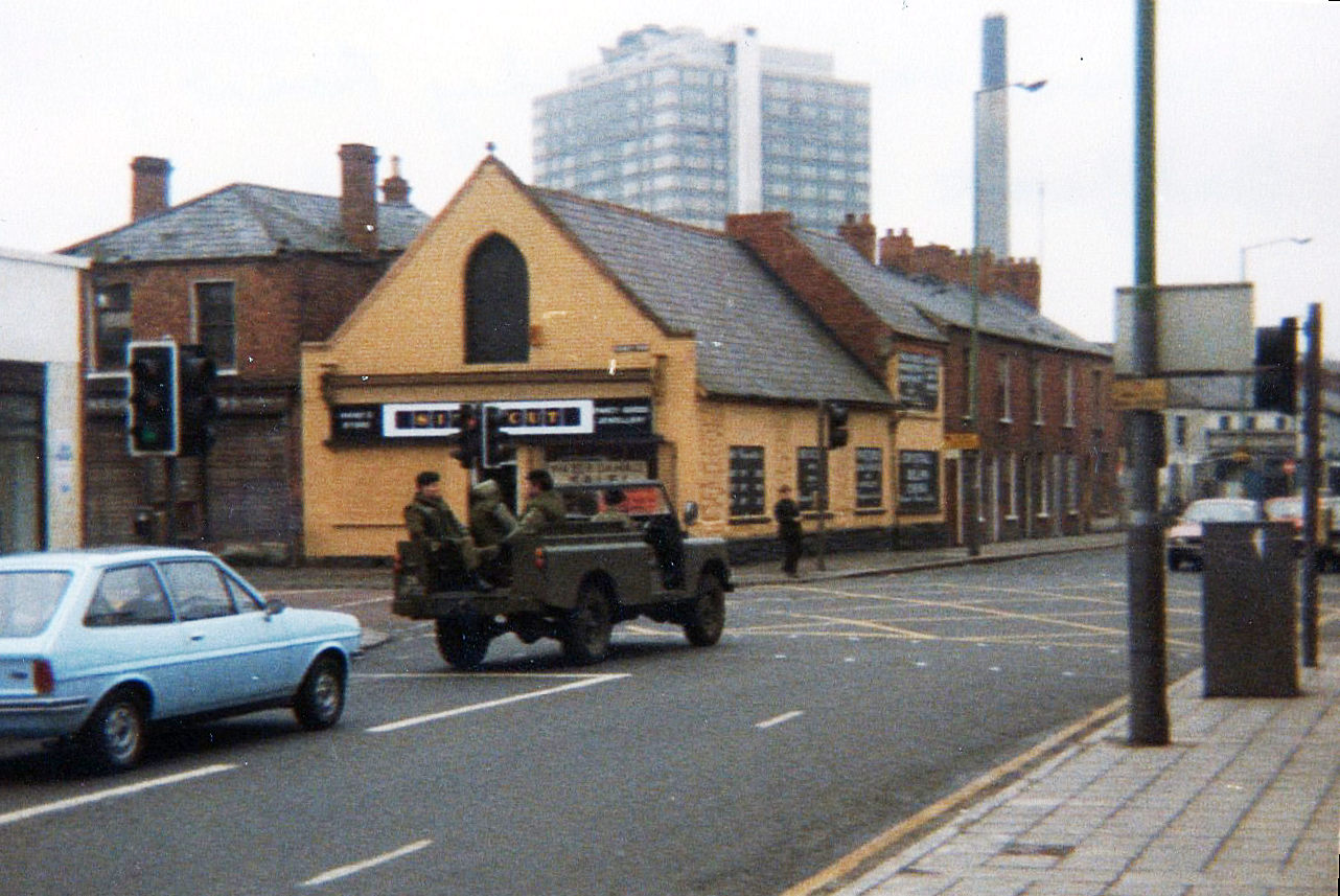 Junction between Donegall Road and Sandy Row, south Belfast 1981